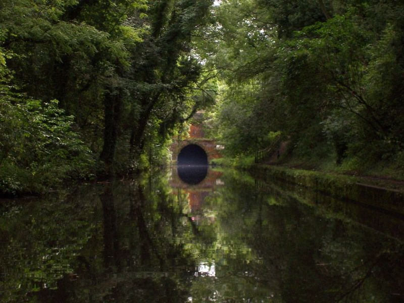 A boat coming up towards a canal tunnel on the Worcester and Birmingham Canal